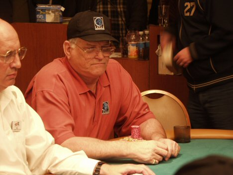 TJ Cloutier playing on first day of Championship event World Series of Poker Circuit Las Vegas Rio 2005.